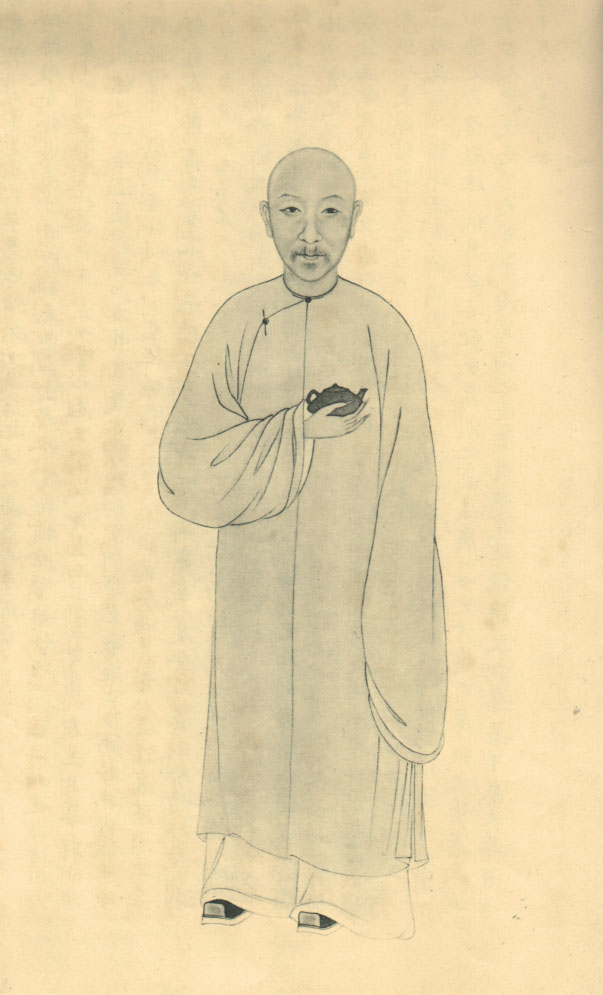 CHEN Hongshou, scholar of the Qing Dynasty.